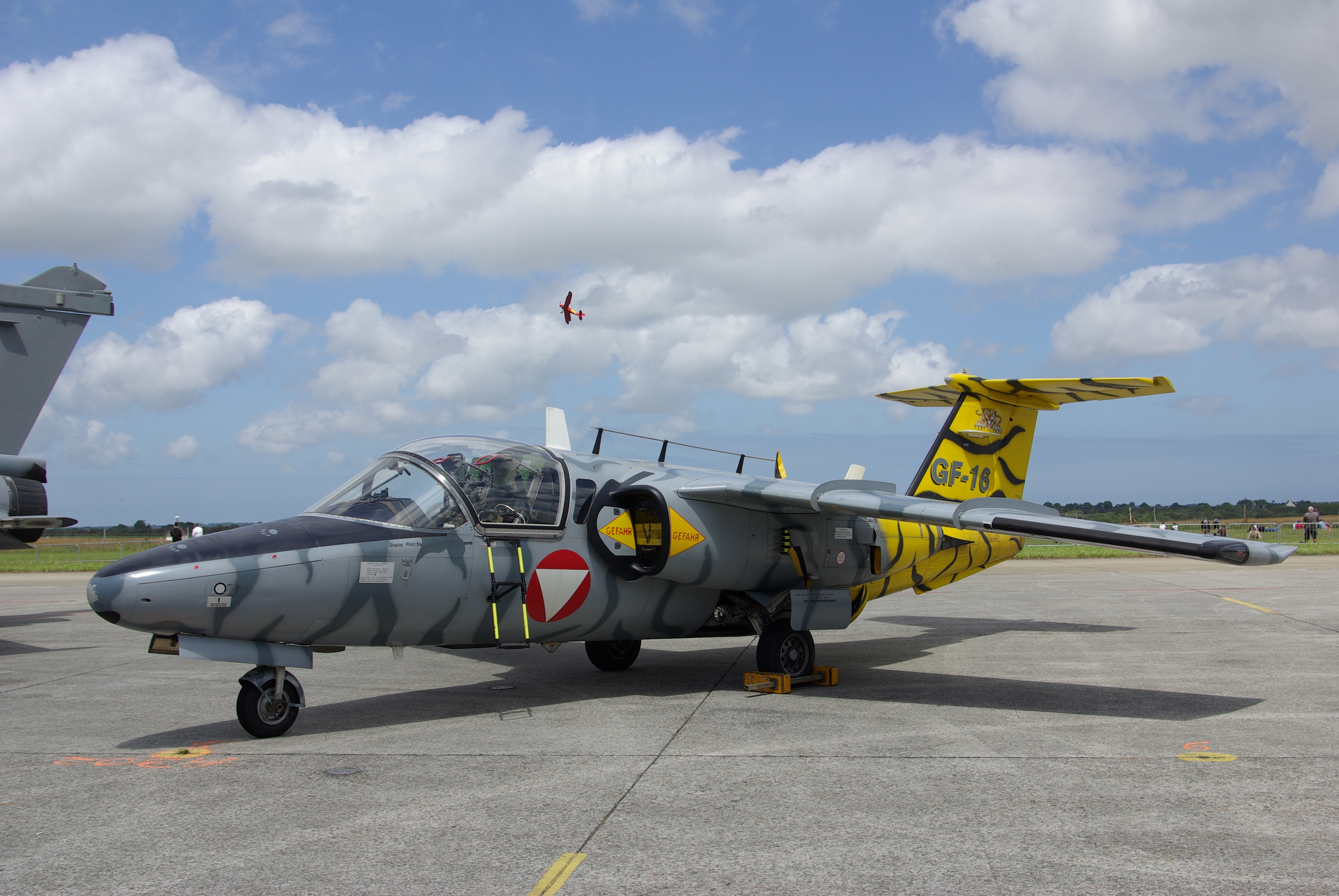 A autrian Saab 105 with colors of the NATO Tiger meet